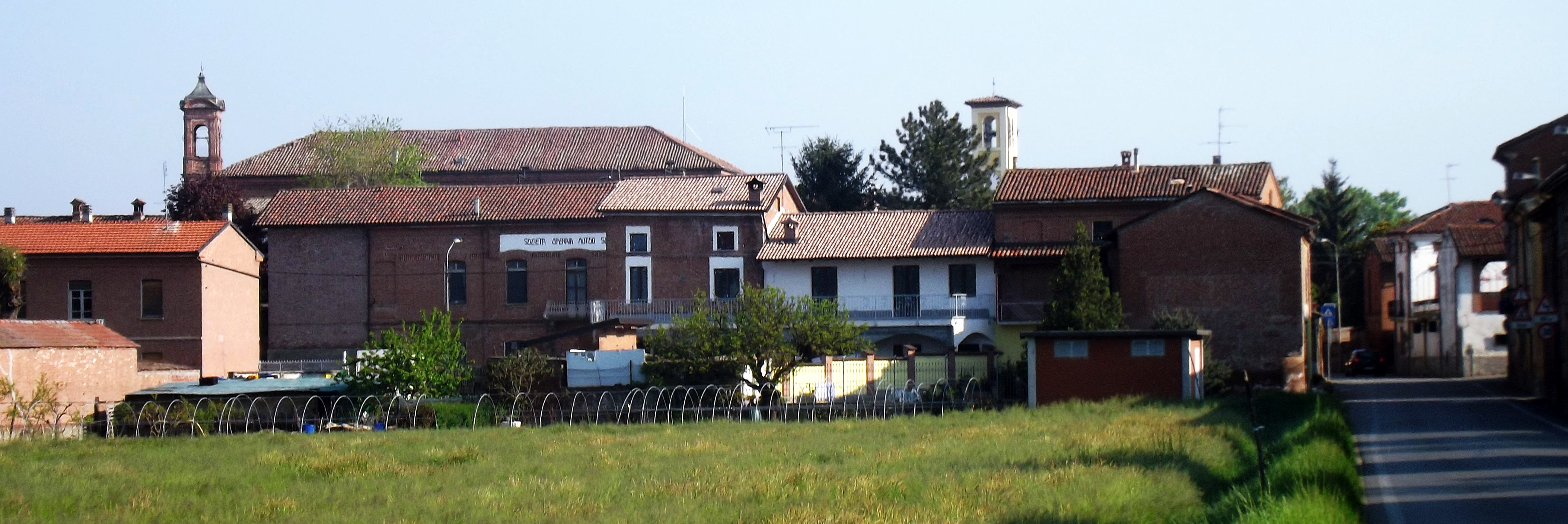 Castelspina (AL, Italy): panorama